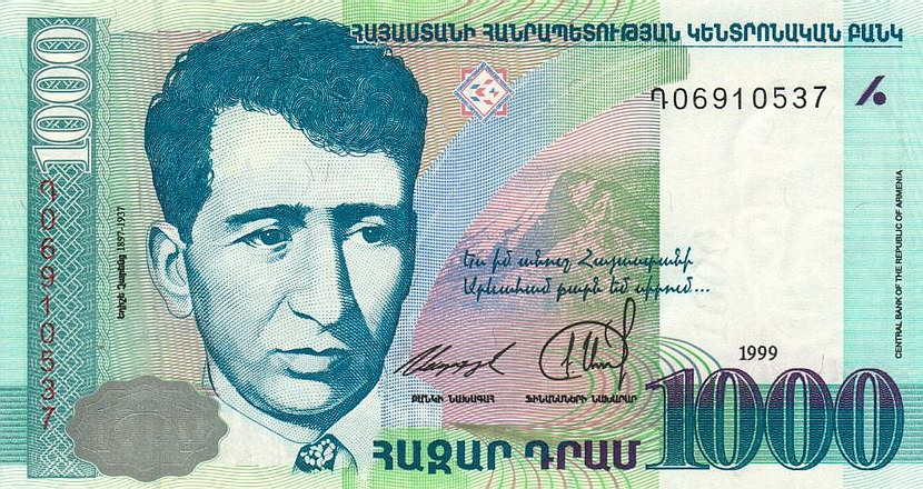 1000 dram 1999